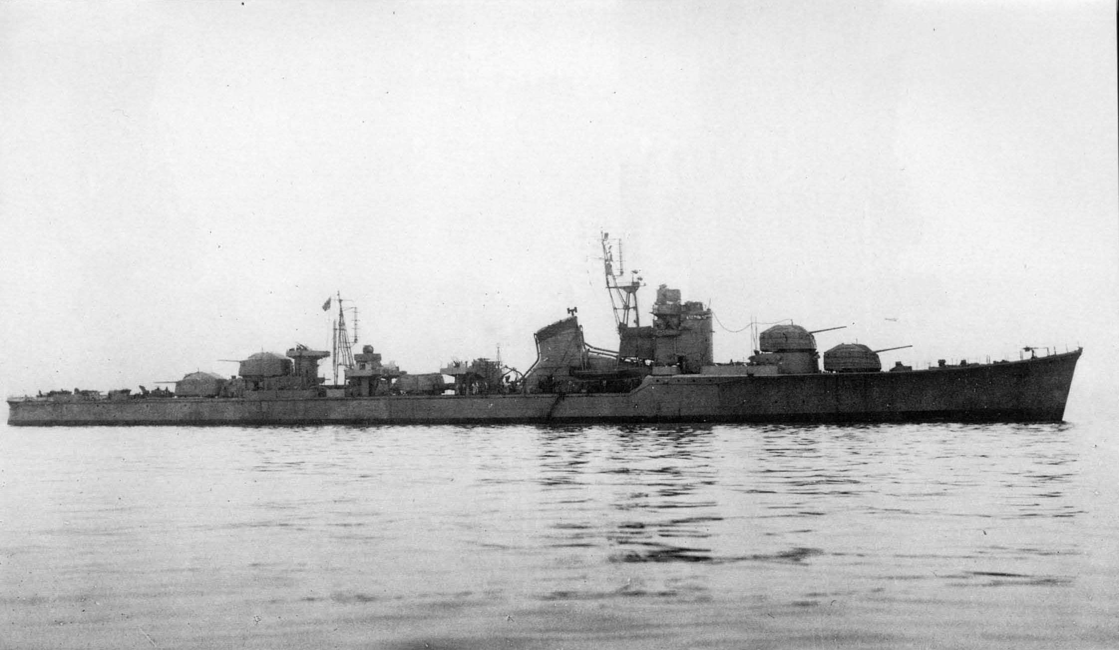 Imperial Japanese destroyer Harutuki (Harutsuki) of Akizuki class (service 1943-1947), later Soviet destroyer Vnezapnyy (service 1947-1969).